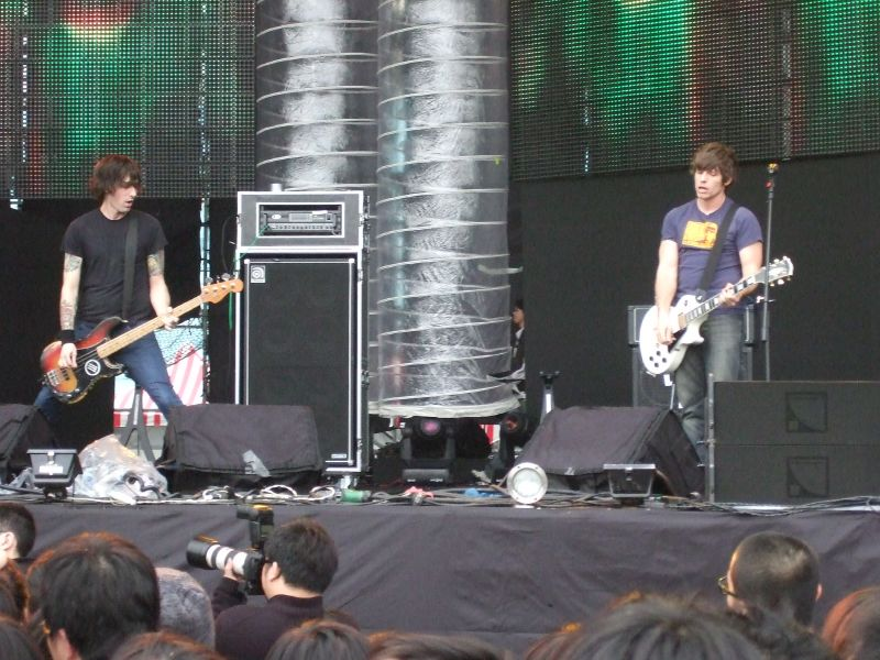 Strike Anywhere @ With Justice We Cure This Nation music festival in Taiwan.